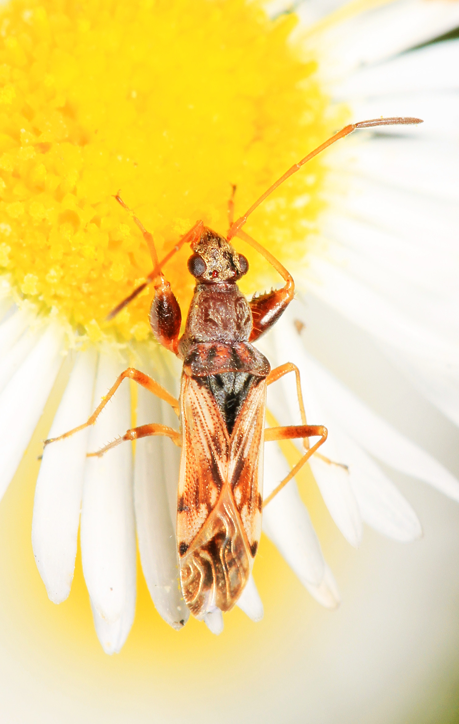 Dirt-colored Seed Bug - Neopamera bilobata, Leesville, Louisiana.